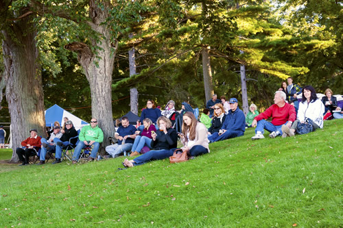 guests watching a performance on The Glen Stage, while relaxing in the park